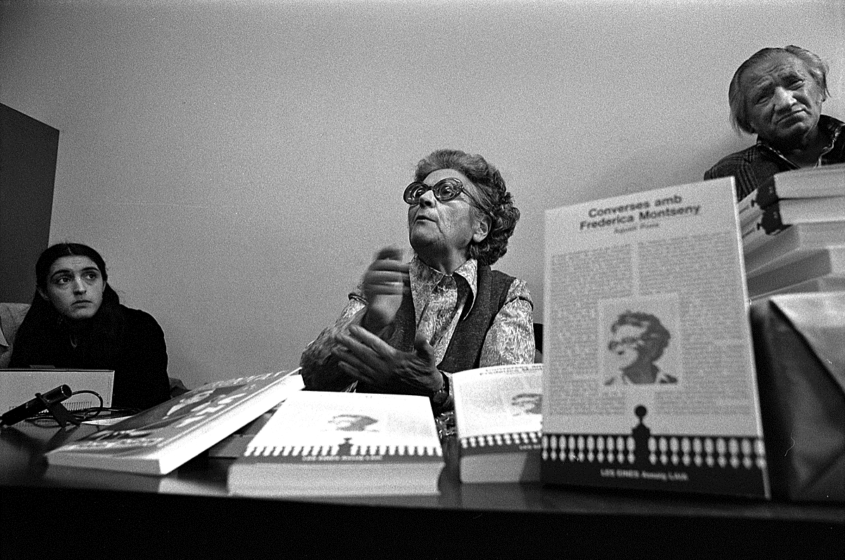 Frederica Montseny in Barcelona on 1977, in her first visit from exile since 1939, at the presentation of the book "Converses amb Frederica Montseny: Frederica Montseny, sindicalisme i acràcia" by Agustí Pons i Mir and Maria Aurèlia Capmany Farnés.